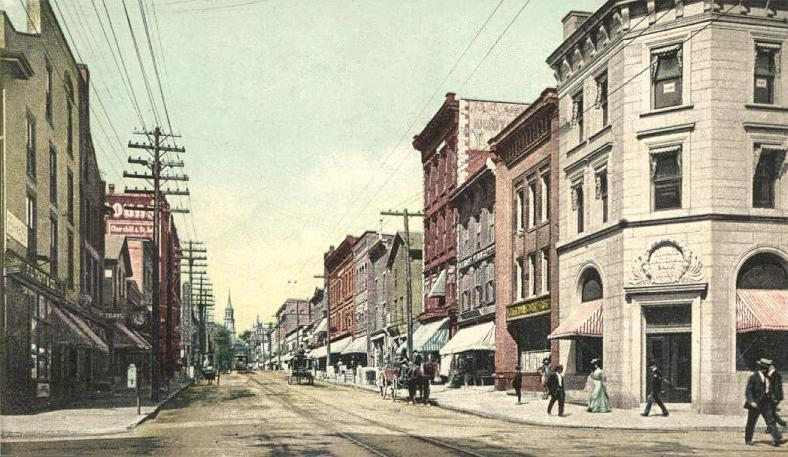 Church Street, Burlington, Vermont; from a 1907 postcard printed by the Detroit Publishing Company.